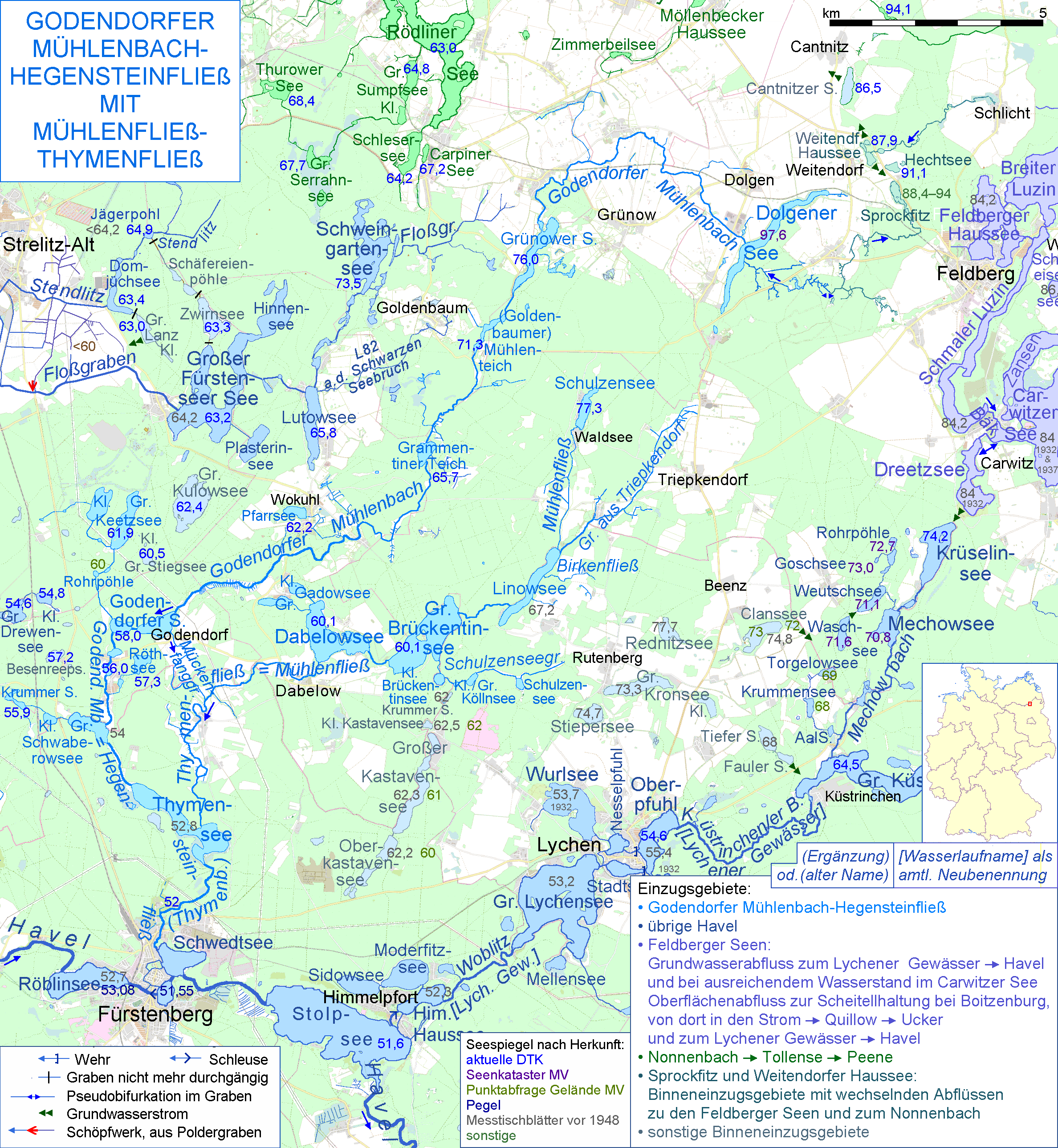 Map of the river with GKZ (LAWA) code 581187, in Mecklenburg-Vorpommern called Godendorfer Mühlenbach and in the state of Brandenburg Hegensteinfließ. Parts of neigbouring basins are marked and expained This map may be incomplete, and may contain errors. Don't rely solely on it for navigation.